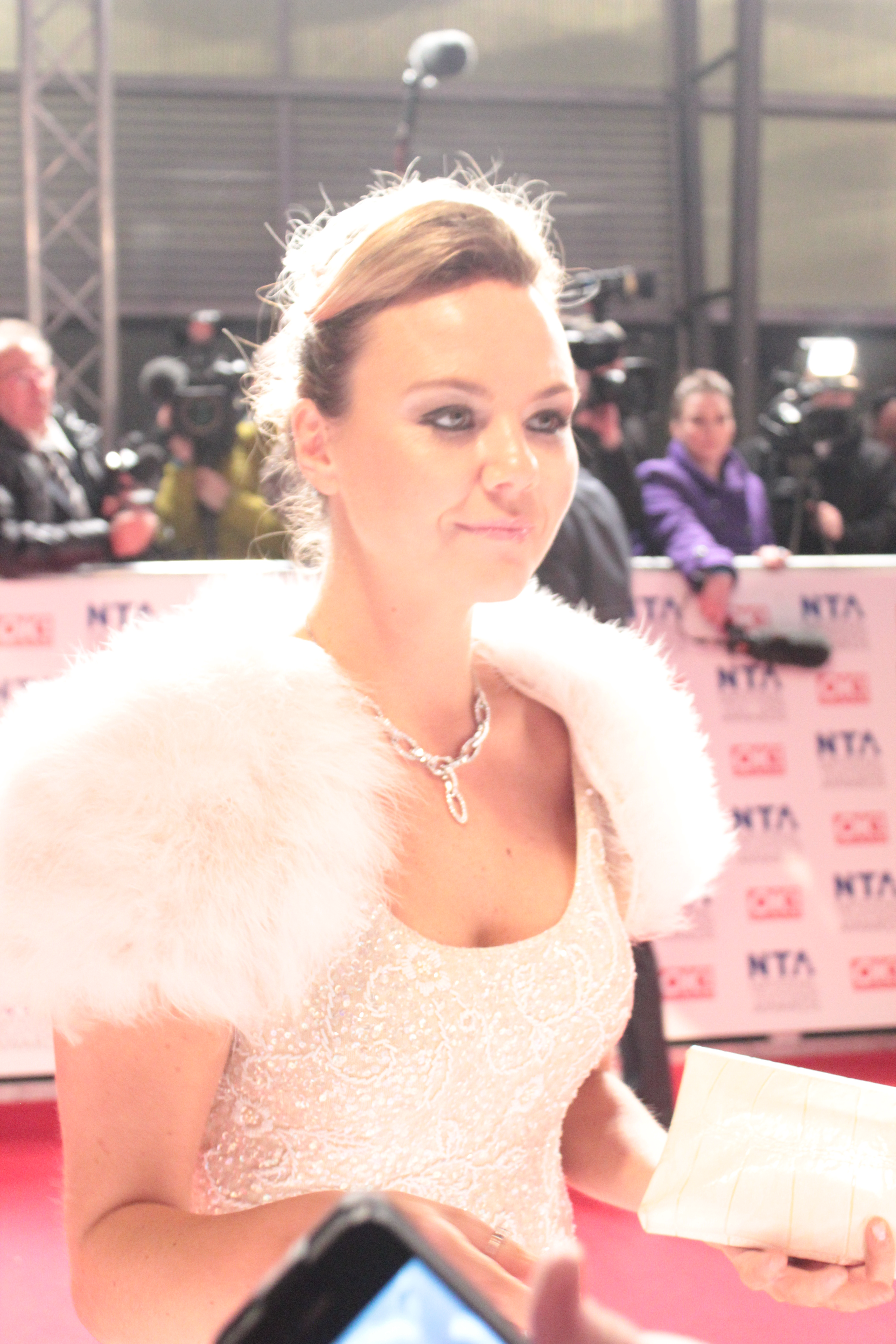 British Actress Charlie Brooks on the red carpet at the National Television Award 2012